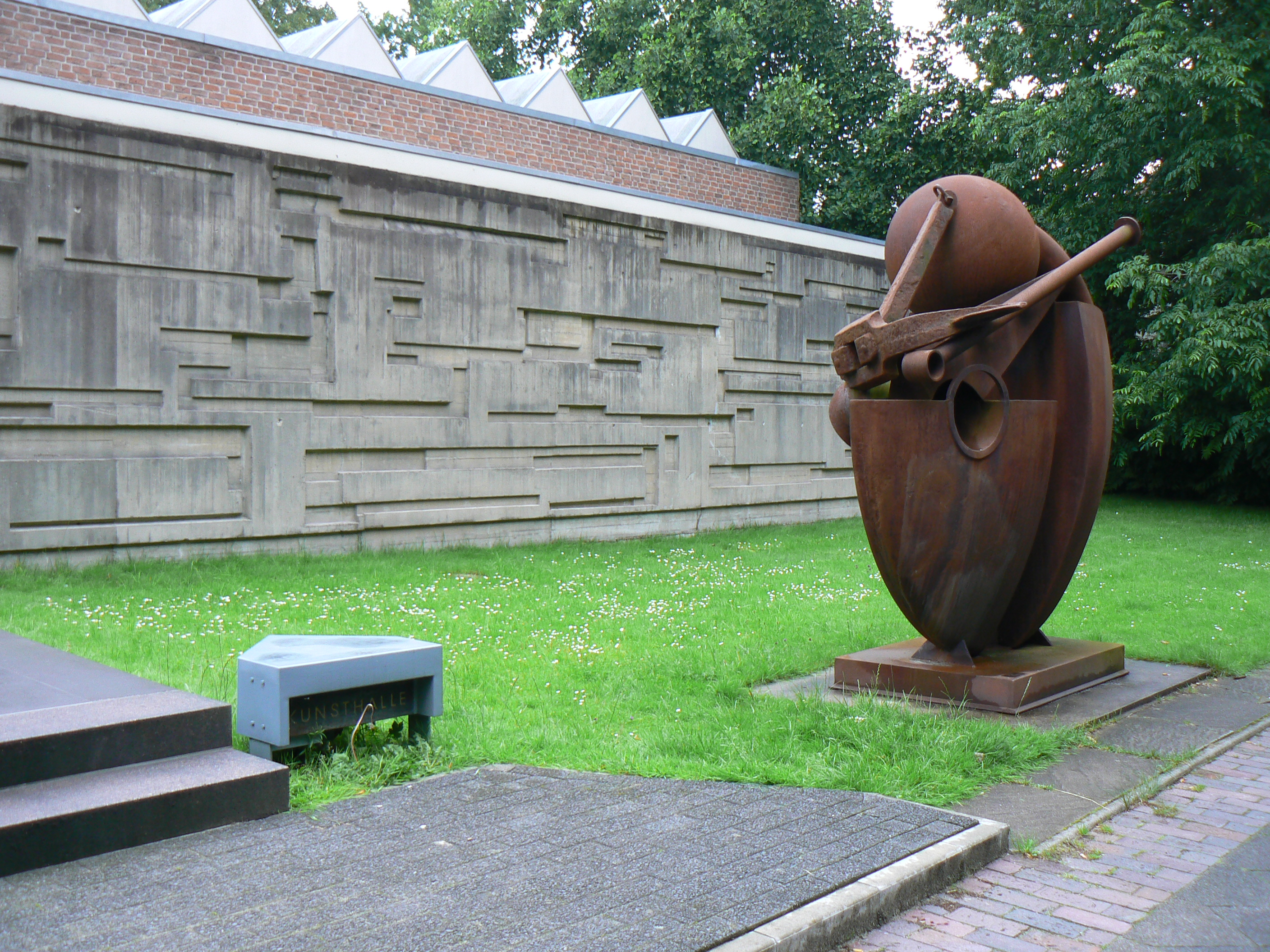 Kunsthalle and sculpture Leonard Wübbena in Wilhelmshaven/Germany